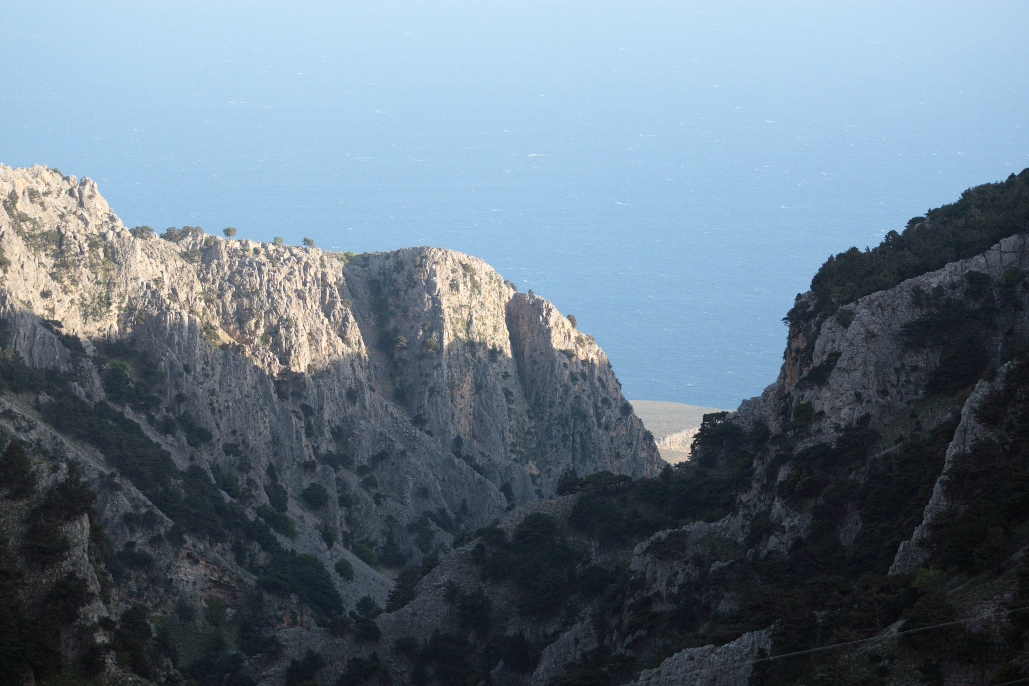 Imbros Gorge, Crete